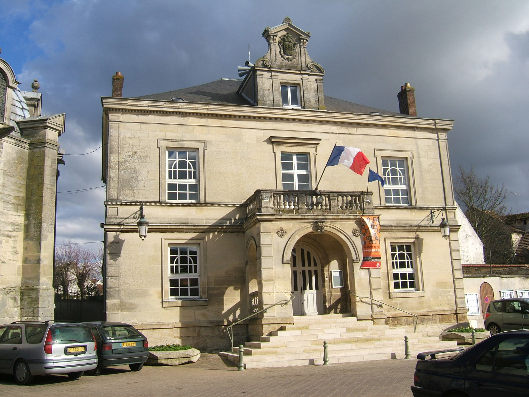 Mairie de Marines (Val-d'Oise) / Townhall of Marines (Val-d'Oise)